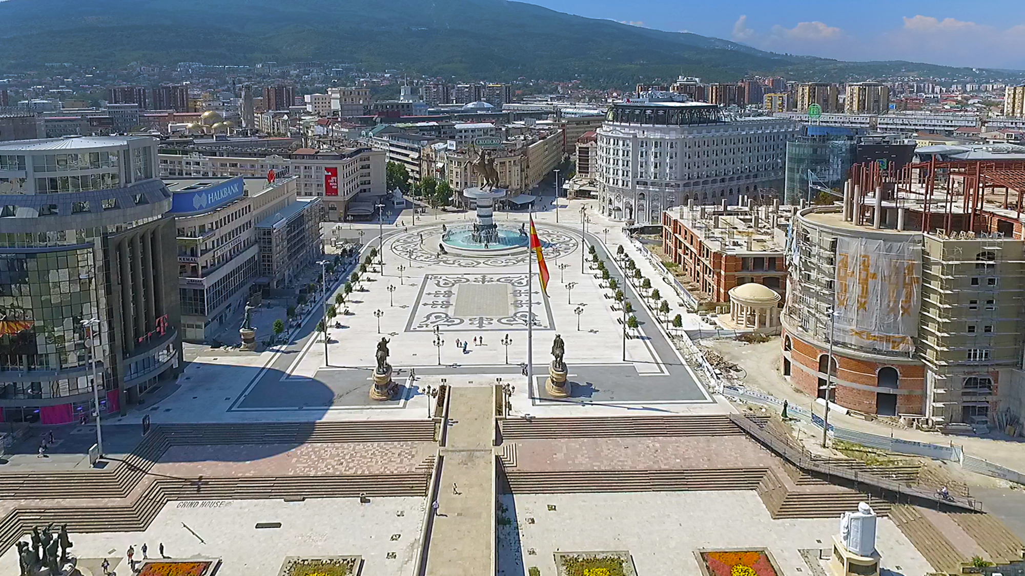 Skopje - The main city square - aerial view